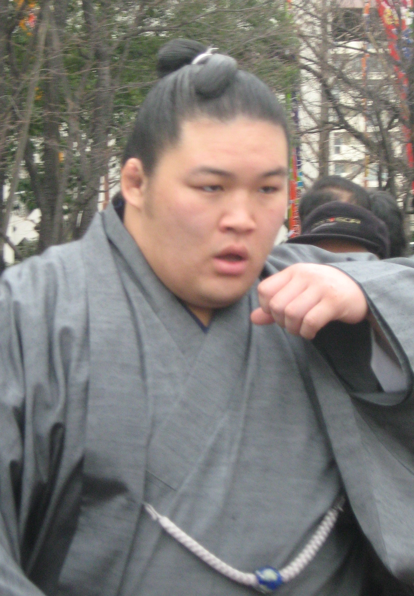 This is a photograph I took at a recent sumo tournament that I release the rights of. User:FourTildes 10:57, 31 May 2008 . . FourTildes . . 1,413×2,032 (1.07 MB)